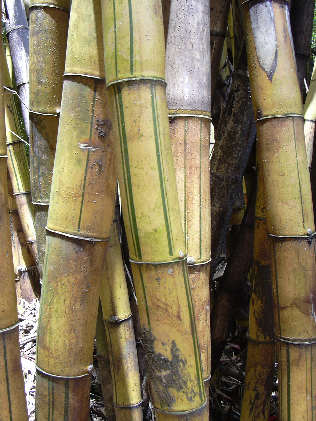 Bambusa vulgaris (cv vittata). Location: Maui, Keanae Arboretum